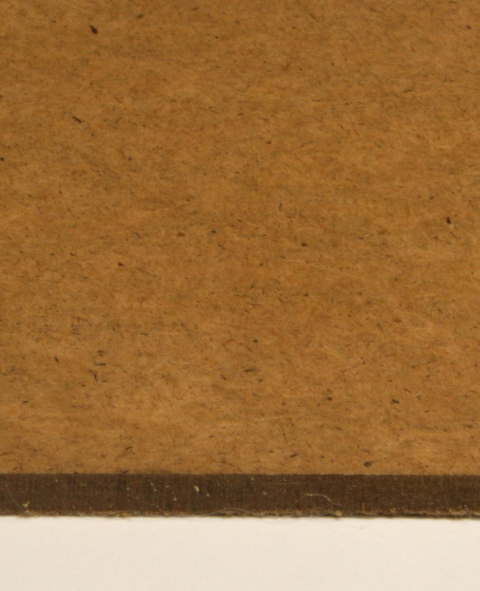 Smooth side and edge of a piece of hardboard